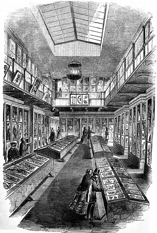 An illustration from Sir William Hooker's 'Museum of Historic Botany'